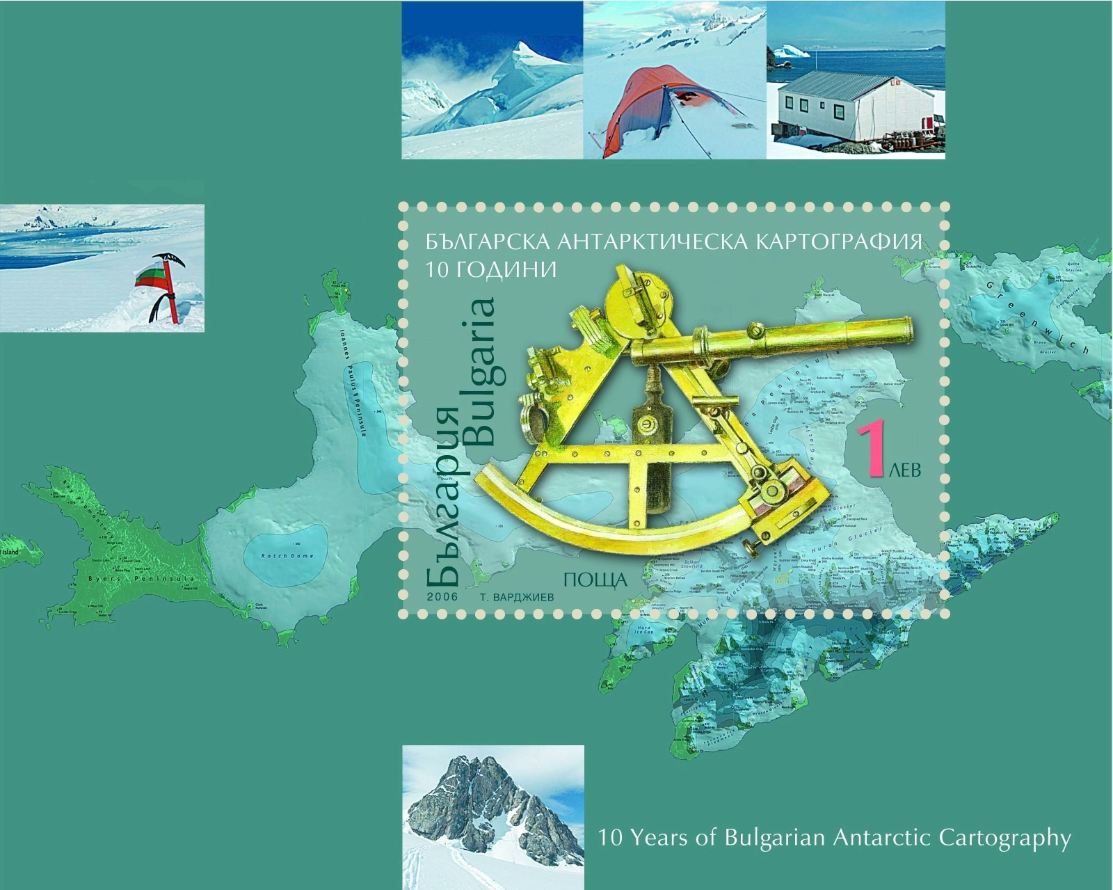 Souvenir sheet “10 Years of Bulgarian Antarctic Cartography”, a commemorative issue published on 28 February 2006. Design Prof. Todor Vardjiev. Photographs Lyubomir Ivanov.